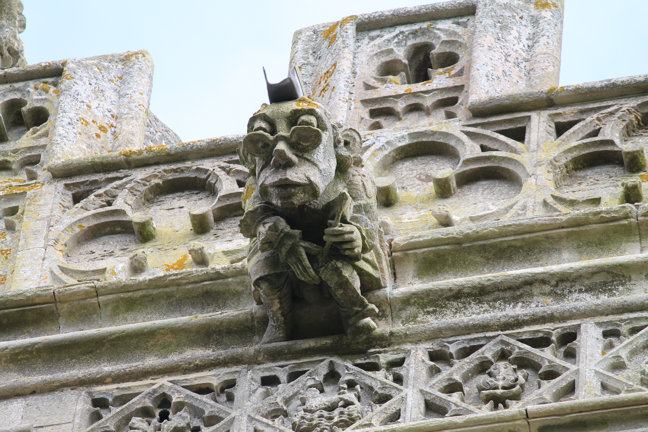 Gargoyle with spectacles on Holy Cross parish church, Great Ponton, Lincolnshire